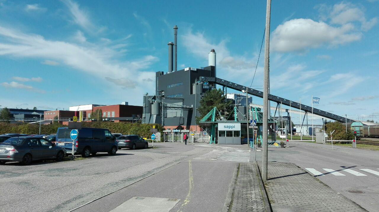 Kirkniemi mill in 2016